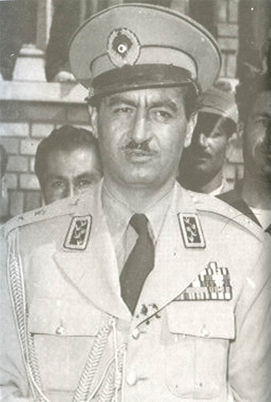 Teymur Bakhtiar